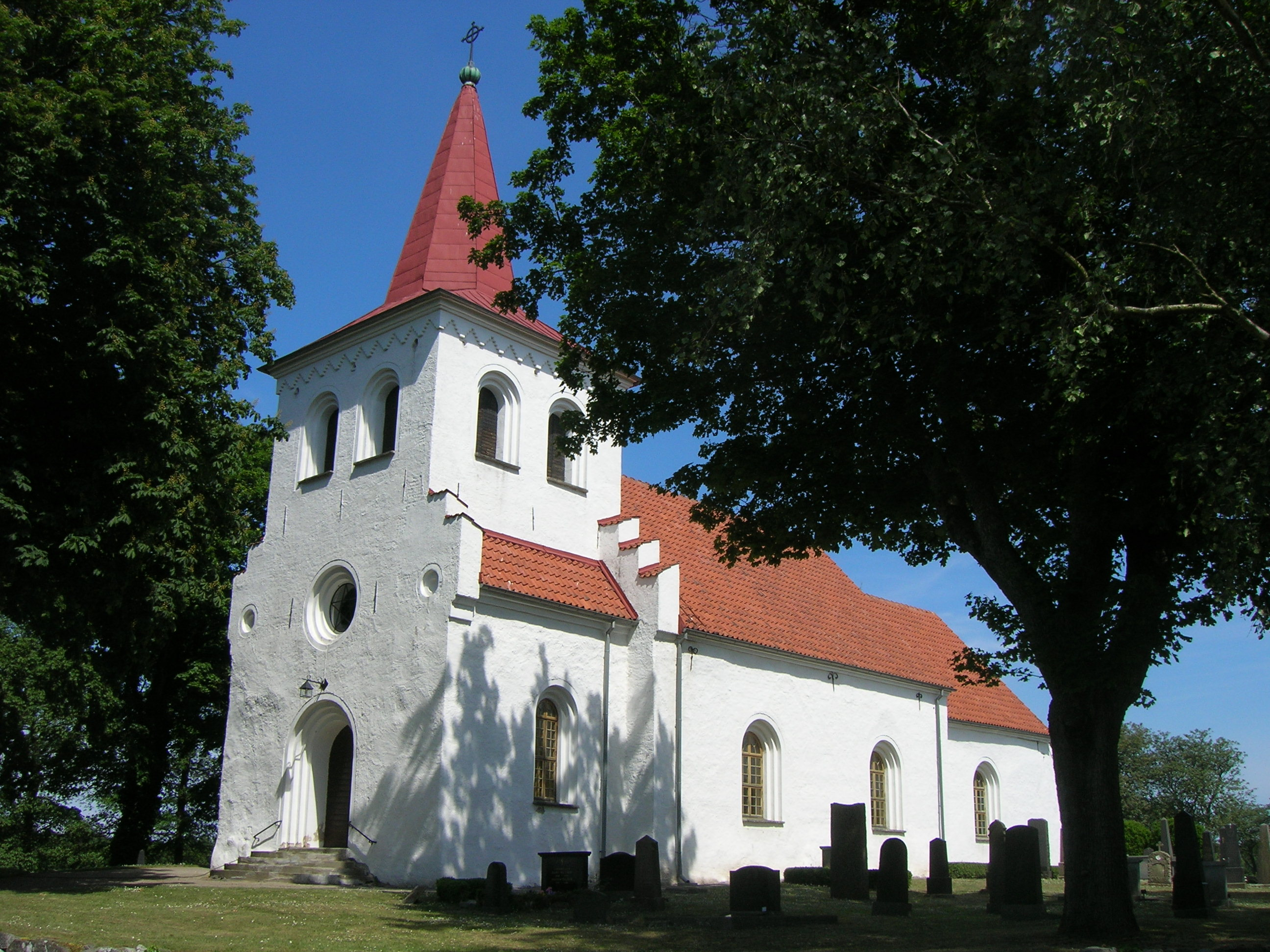 Eljaröd Church, Tomelilla Municipality, Scania, Diocese of Lund, Sweden.